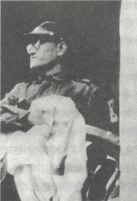 Lee Pom-suk, Korean politicians and independence activists